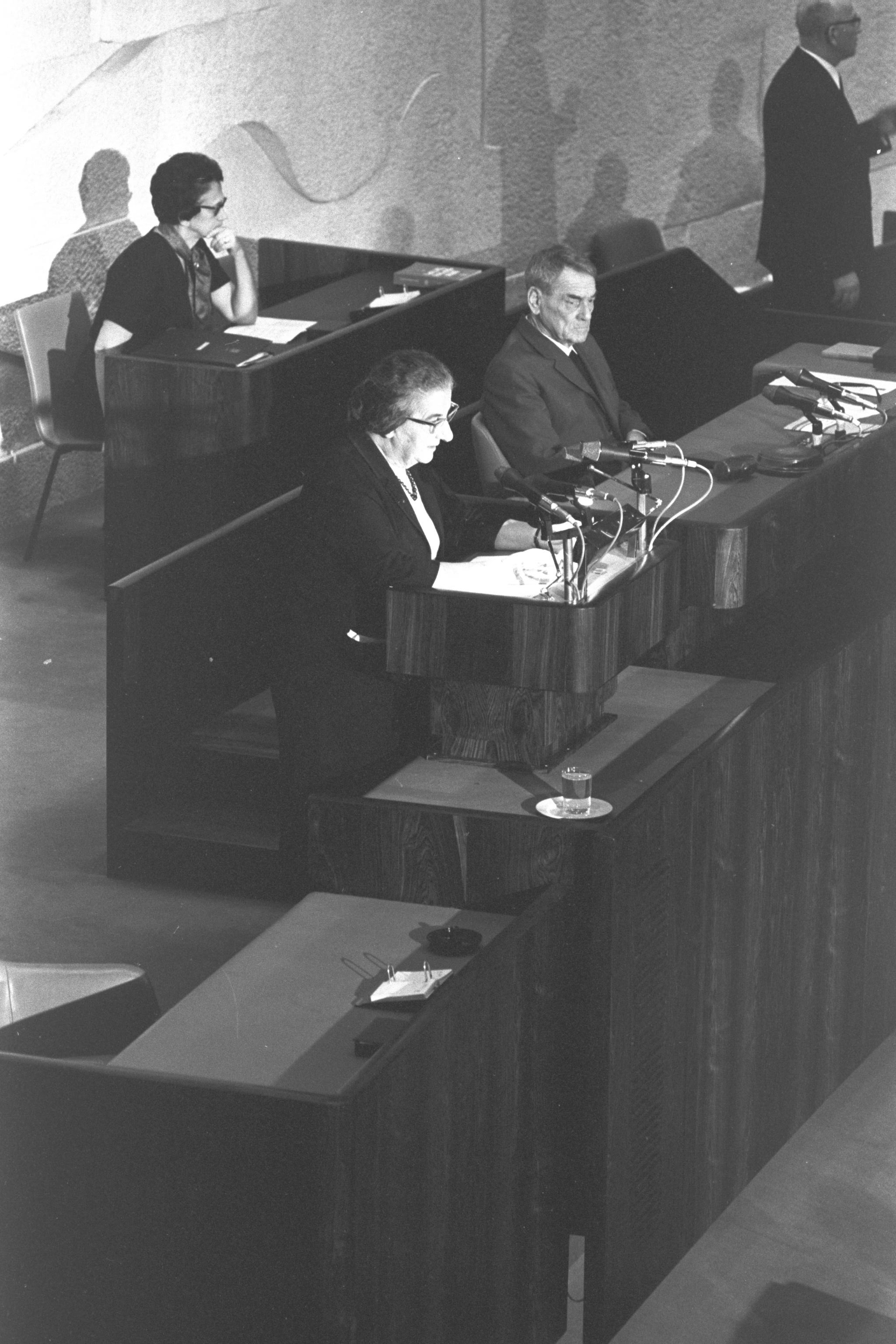 MRS. GOLDA MEIR DURING HER SPEECH PRESENTING HER NEW CABINET TO THE PLENARY SESSION OF THE KNESSET IN JERUSALEM